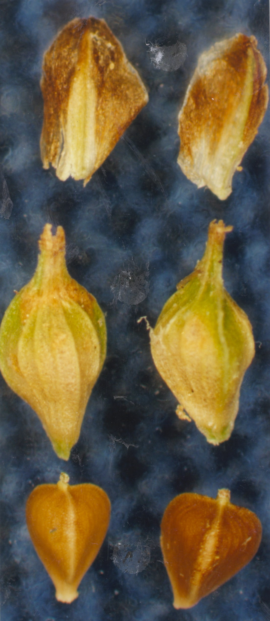 Carex_serotina, Carex viridula Michx. ssp. viridula, little green sedge